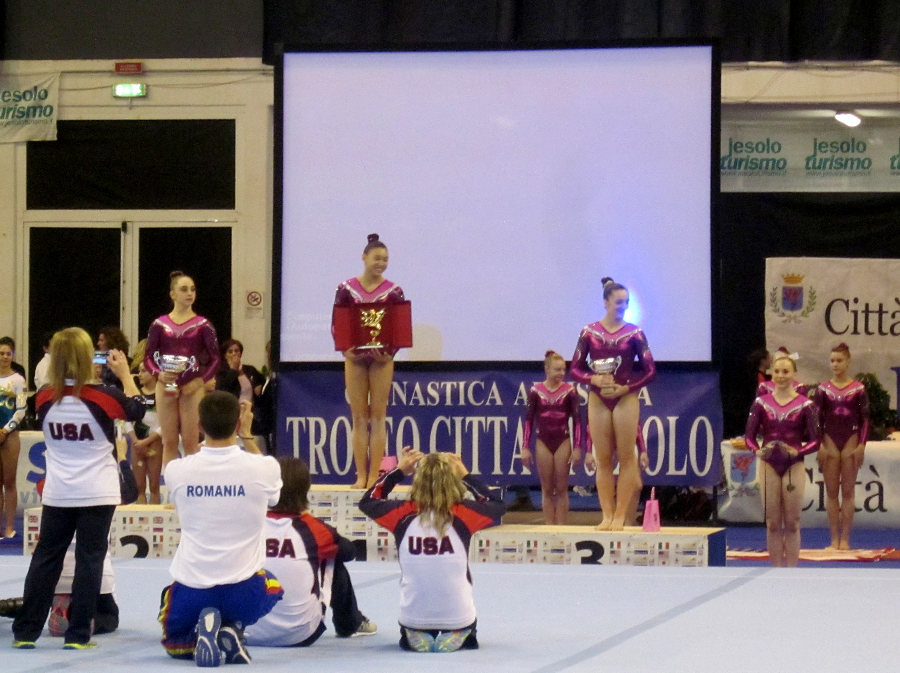 Podium at Jesolo Trophy 2014: 1.Kyla Ross (58.000), 2. Peyton Ernst (57.650), 3. Maggie Nichols (57.450)